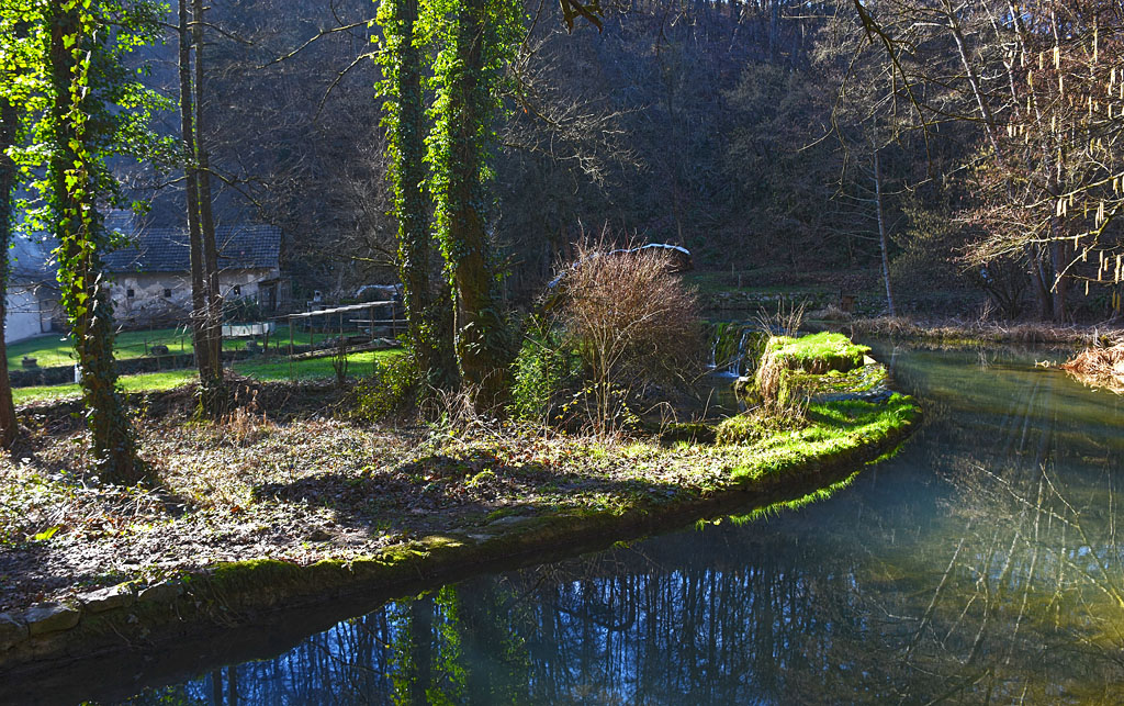 Zijalo is the karst source of Temenica river, after it goes underground for the first time. In the past, there were a few water mills and saw mills.